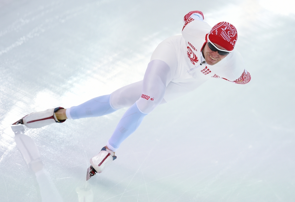 Evgeny Seryaev